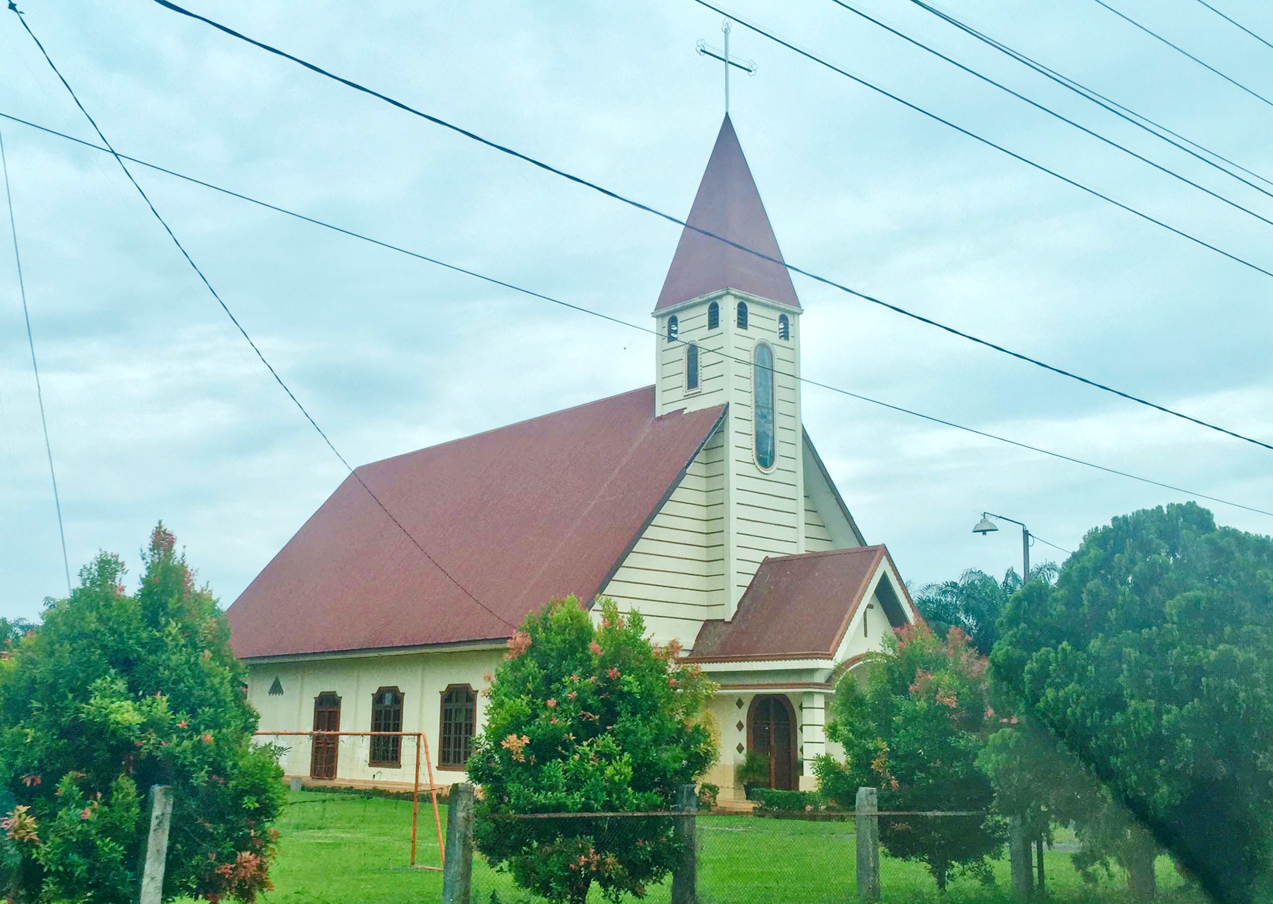 HKBP Aek Loba, Res. Aek Loba Church in Aek Loba Afdeling I, Aek Kuasan, Asahan